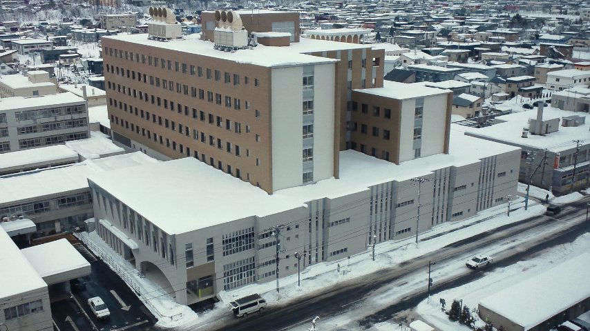 Takikawa Municipal Hospital new building